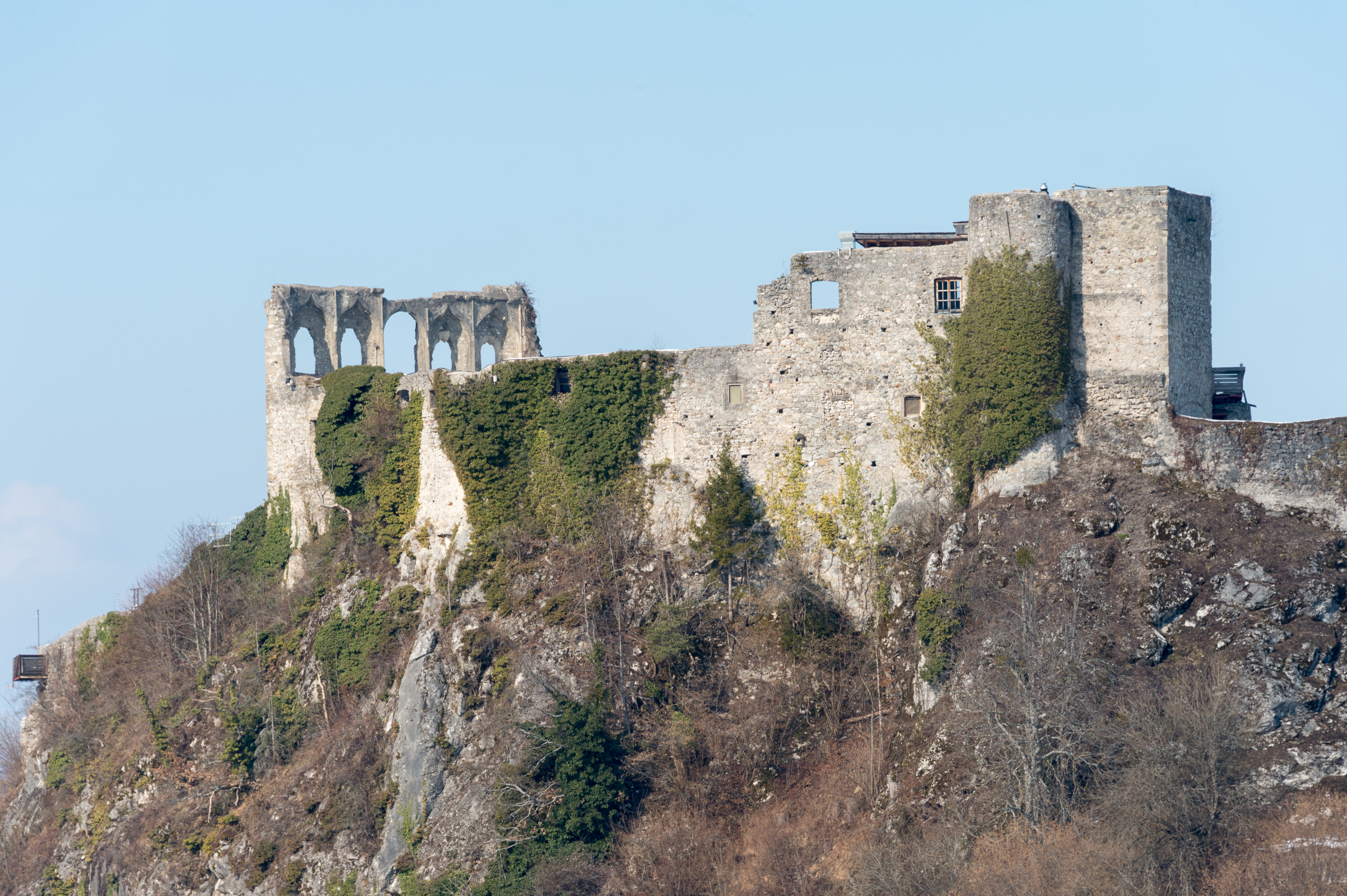 Castle ruin in Altfinkenstein #14, market town Finkenstein am Faaker See, district Villach Land, Carinthia, Austria, EU